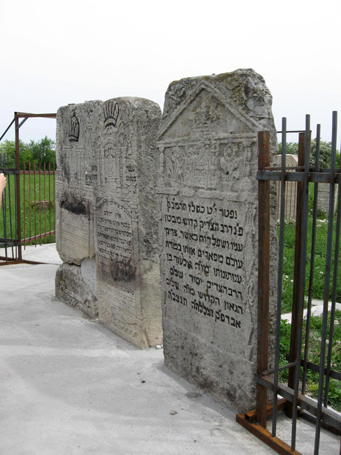 Rabbis tombs, the sanctuary for Hasidic Jews, Belz